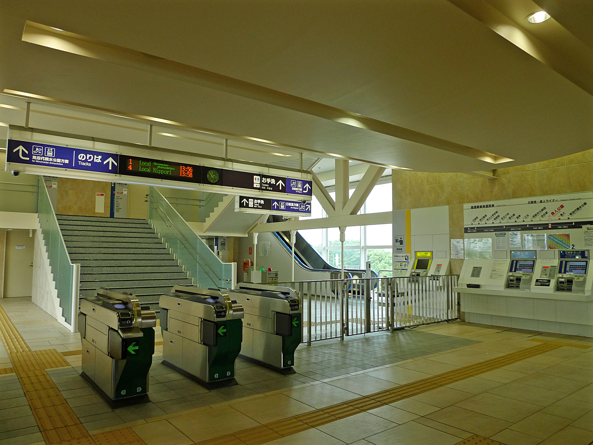 Toneri-koen Station gate,Nippori-Toneri Liner.